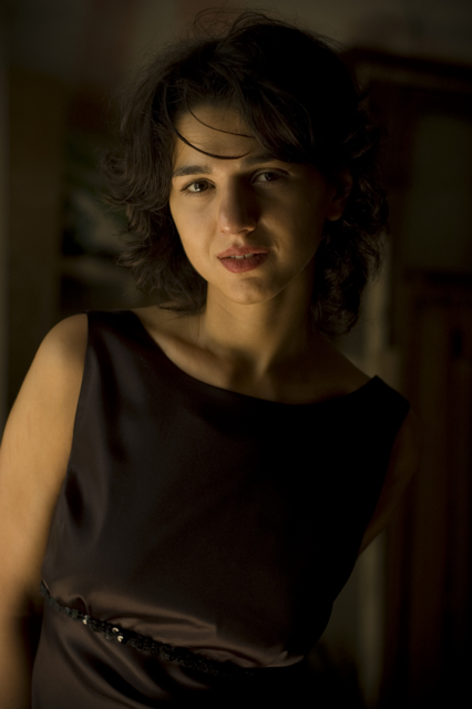 Khatia Buniatishvili